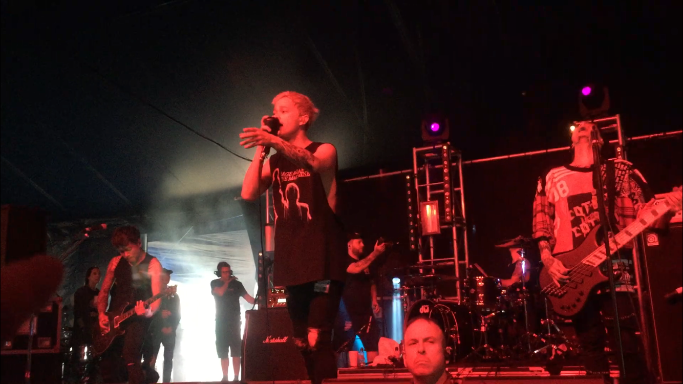 An image of the Japanese rock band Coldrain performing at Download Festival in the United Kingdom in June 2019